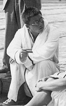 Shigeo Sugiura after winning the gold medal in the Swimming Men's 4x200m Freestyle Relay during the Berlin Olympic at Swimming Stadium on August 11, 1936 in Berlin, Germany.